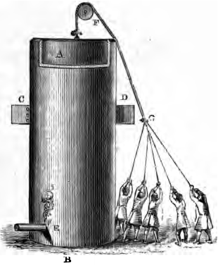 Huyghens' Engine, published in 1682 by Hautefeuille, referring to an experiment which had been made at the Royal Academy for raising solid bodies by means of gunpowder. He gives a description of the above apparatus, and states that he was assured that a dram of gunpowder, in a cylinder seven or eight feet high and fifteen or eighteen inches in diameter, and raised into the air seven or eight boys who held the end of the rope; and that it had in like manner raised from 1,000 to 1,200 pounds' weight.